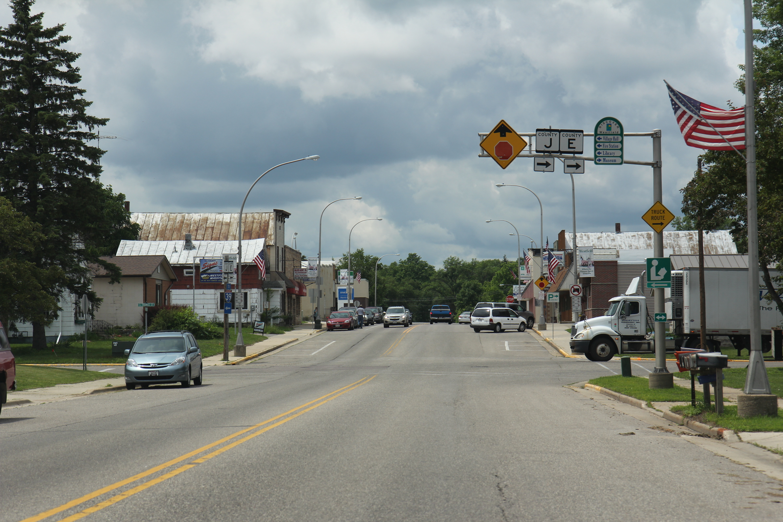 Looking west at downtown Westfield, Wisconsin.